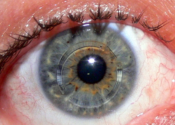 Corneal rings, 9 days after insertion into an eye affected by Keratoconus. (You can still see the holding stitch in the top right hand corner of the picture)